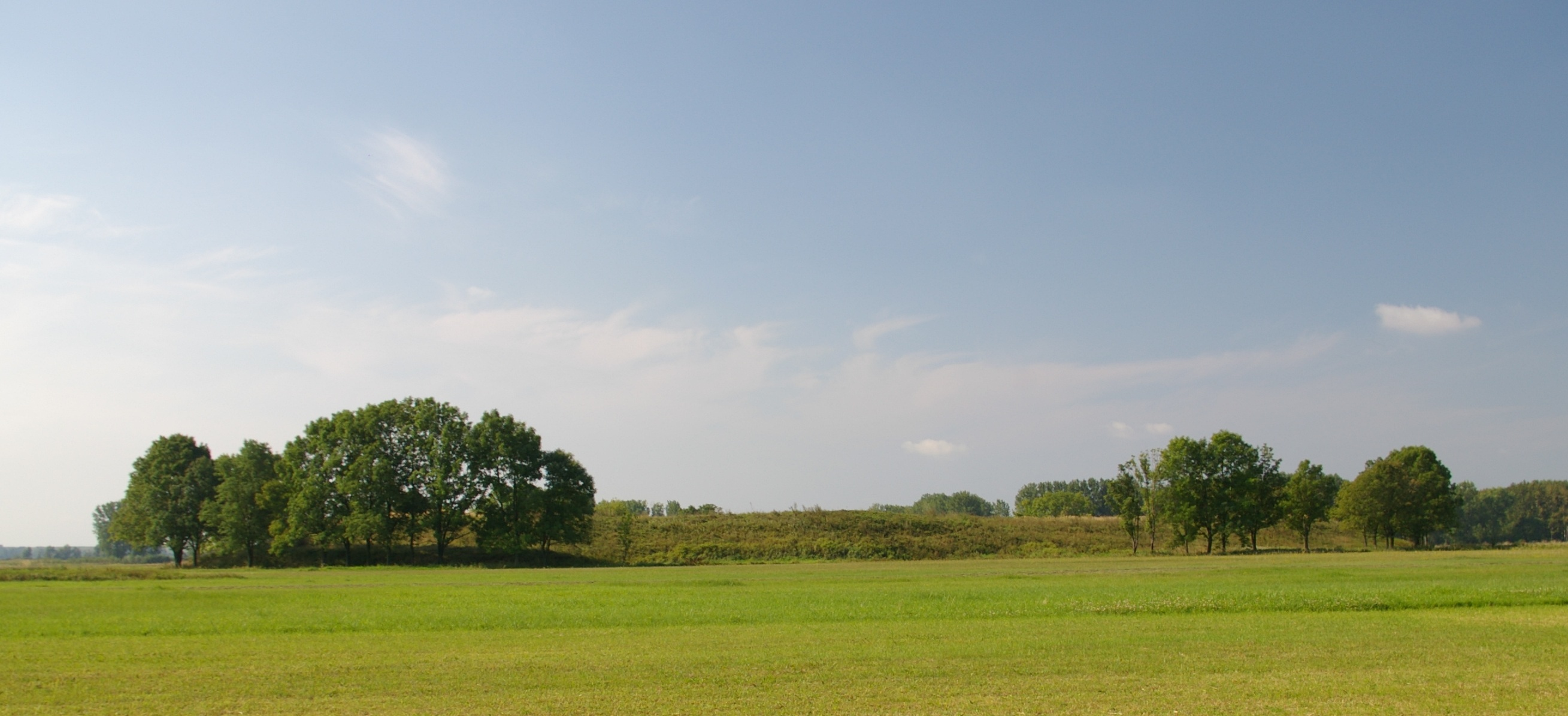 The hill fort in Wiślica, overall view